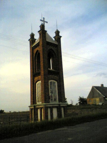 The small shrine in Trzciano (Pomeranian voivodship), built in memorial of battle of Poland and Sweden in 1629.